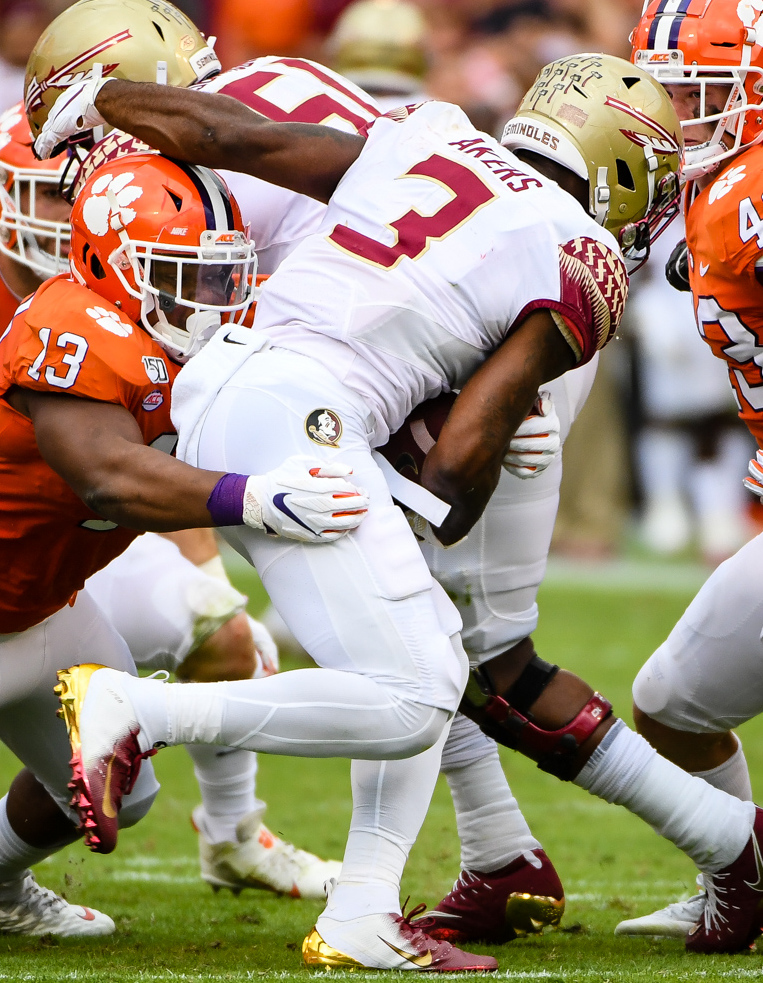 Akers running into the Clemson defense